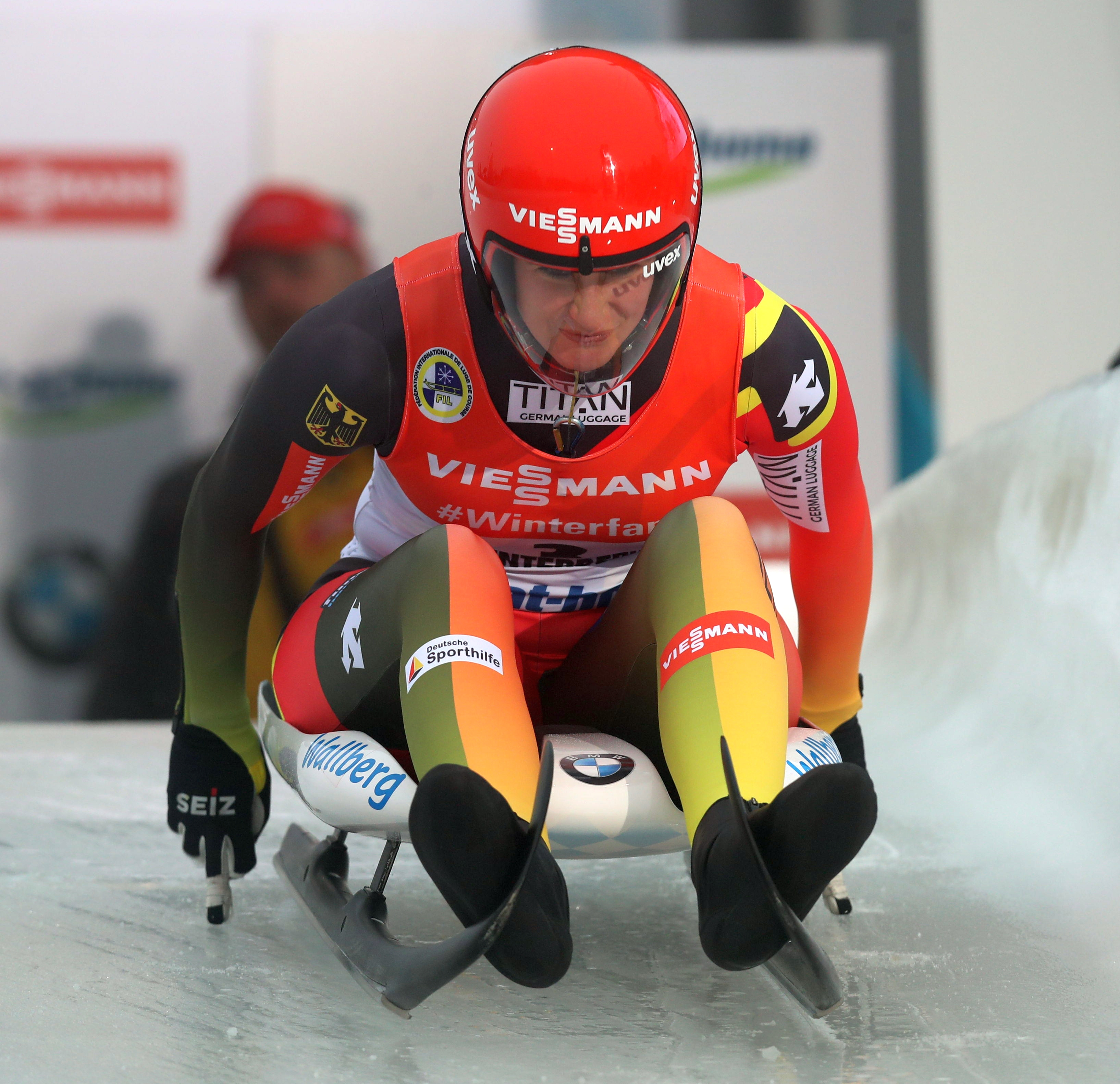 Women's race at the FIL World Luge Championships 2019 in Winterberg